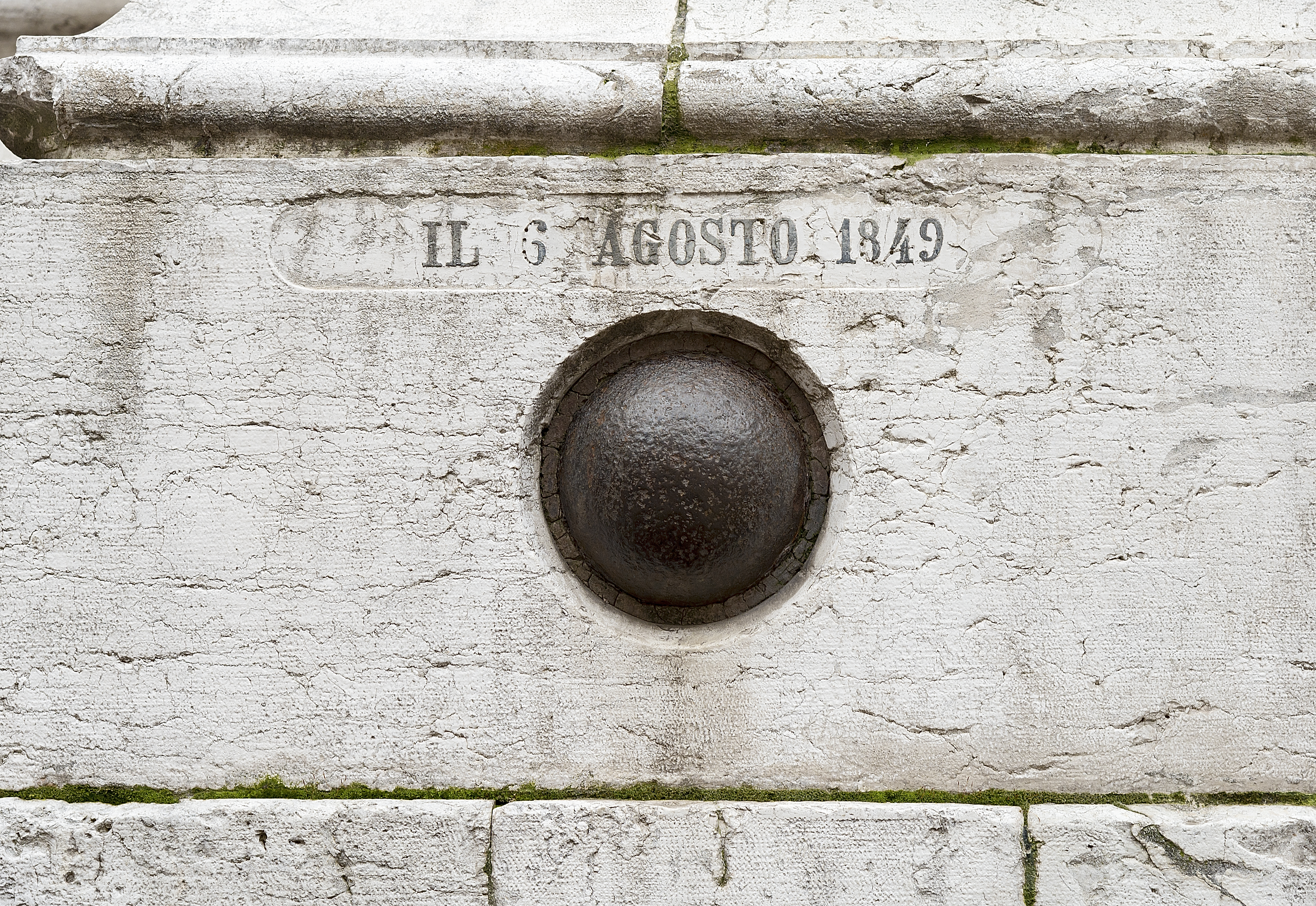 San Salvatore, Venice. Embedded cannon ball in Facade.